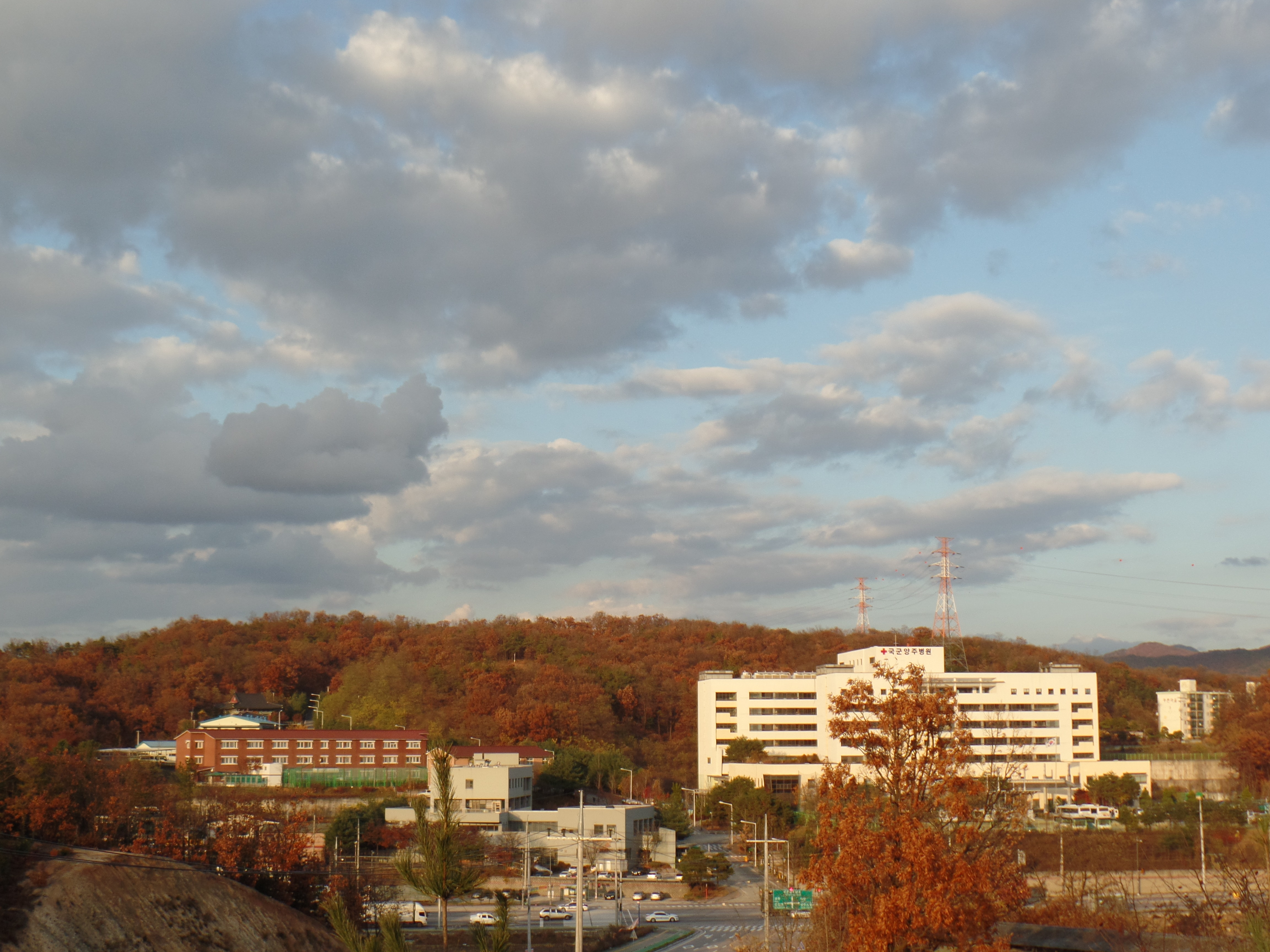 Scenery of Republic of Korea Armed Forces Yangju Hospital